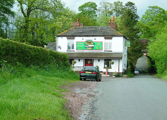 The Wharf inn. The Shropshire Union canal goes over the aqueduct.